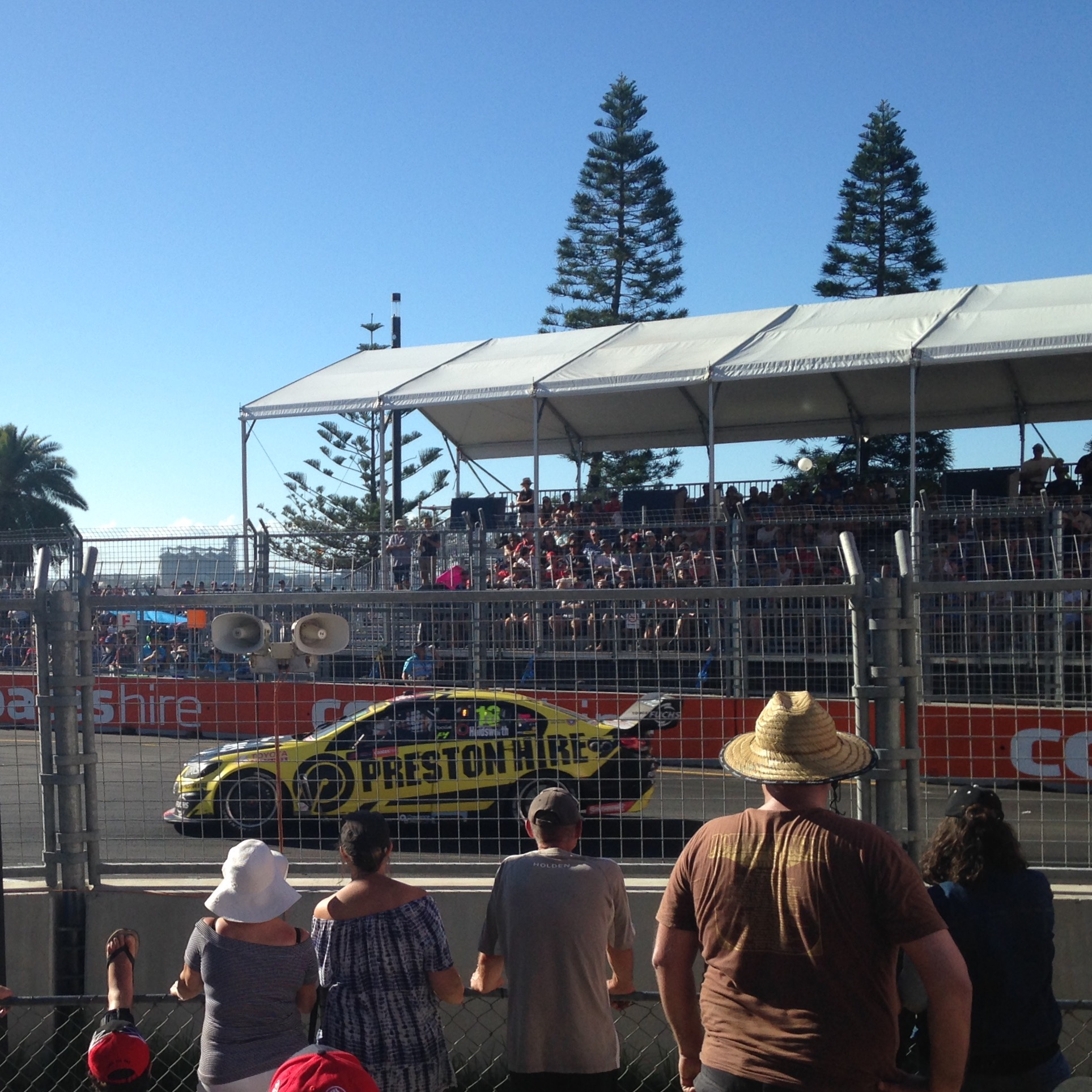 Lee Holdsworth competing for Charlie Schwerkolt Racing in the 2017 Newcastle 500